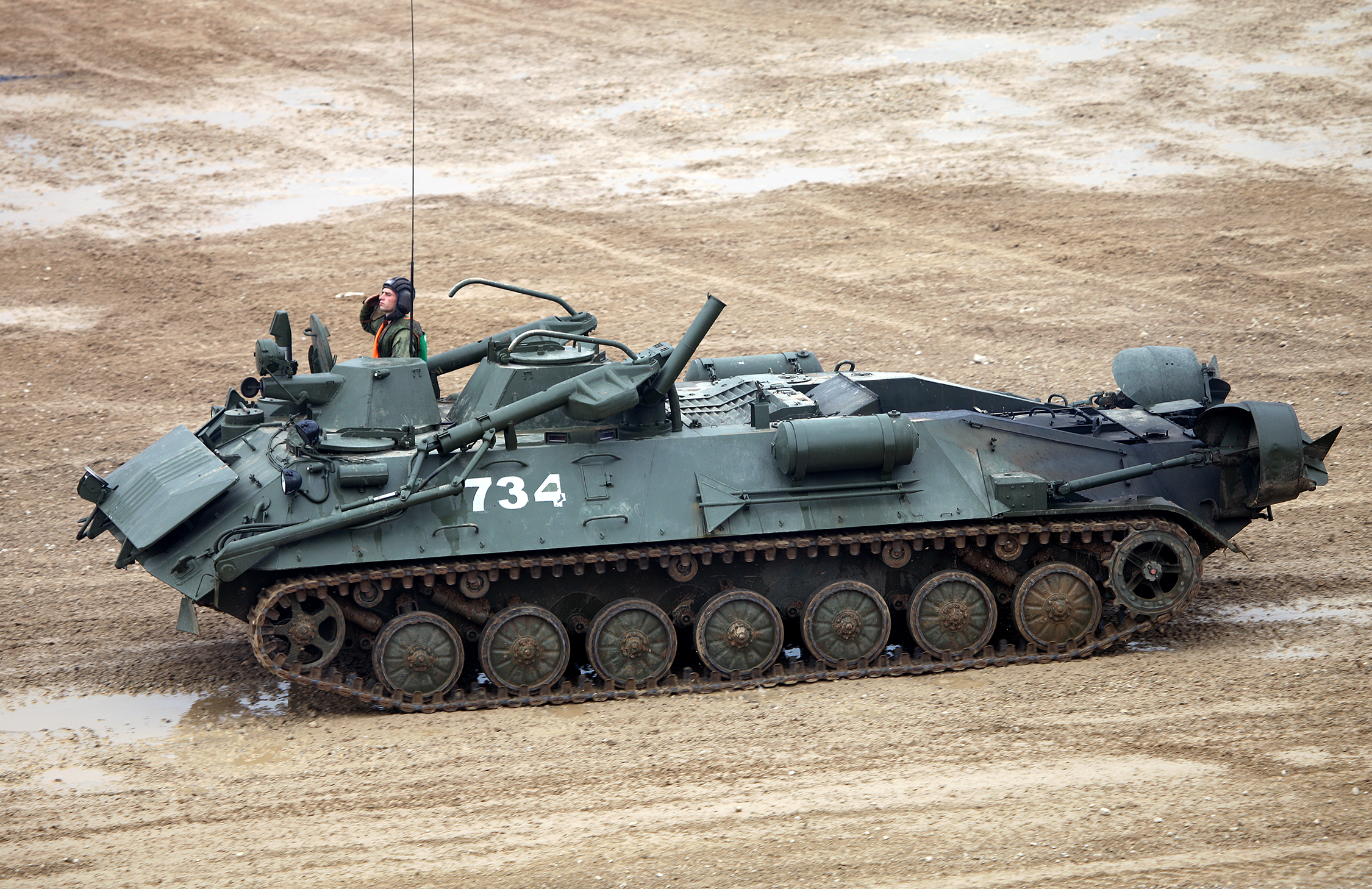 IRM Zhuk engineer reconnaissance vehicle